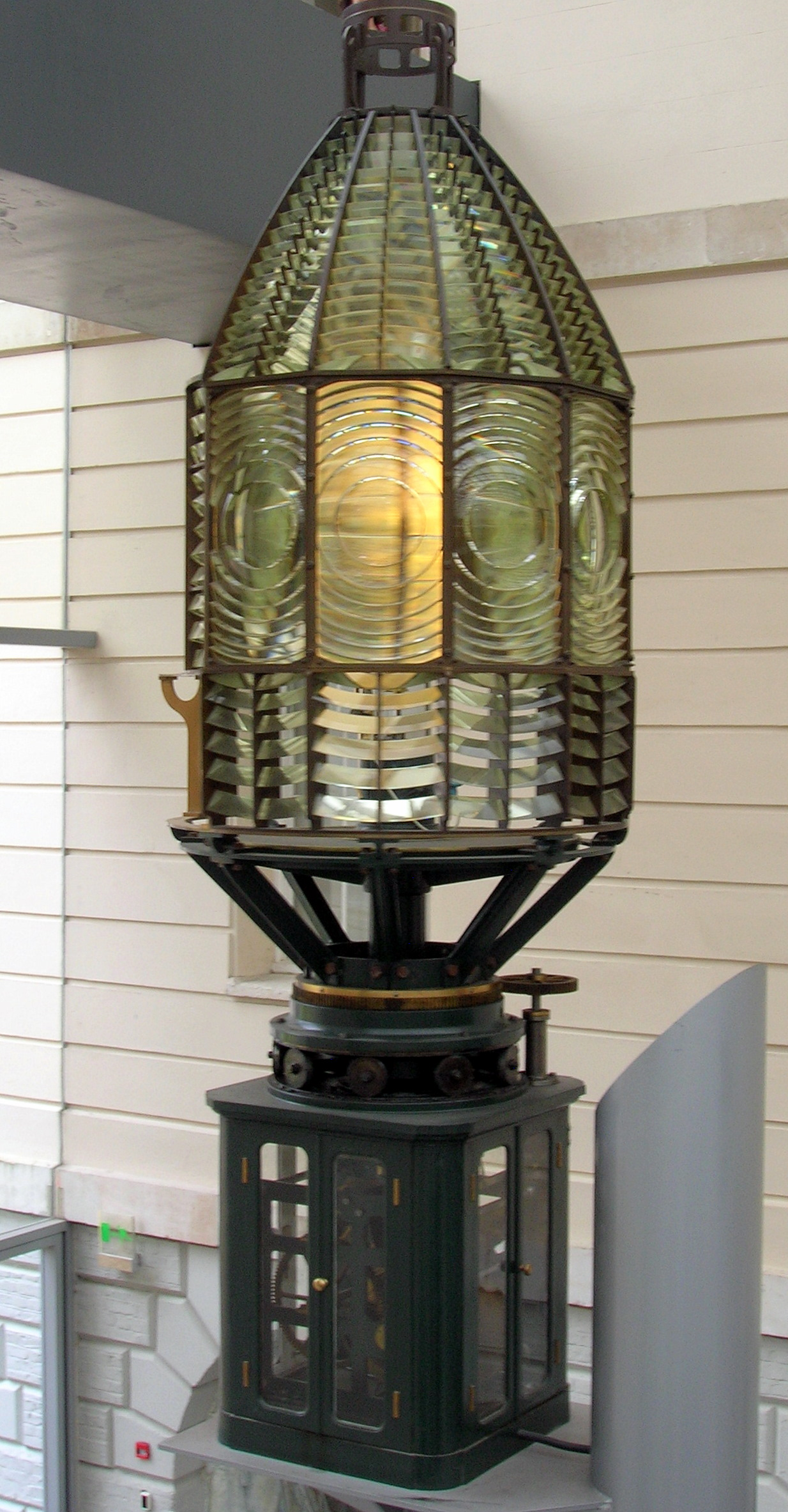 Optic from the Tarbat Ness Lighthouse, 1892. The Tarbat Ness Lighthouse stands at the mouth of the Moray Firth in Scotland. This optic was installed in 1892 and was in operation until 1984, when it was replaced by a new electrc lamp.